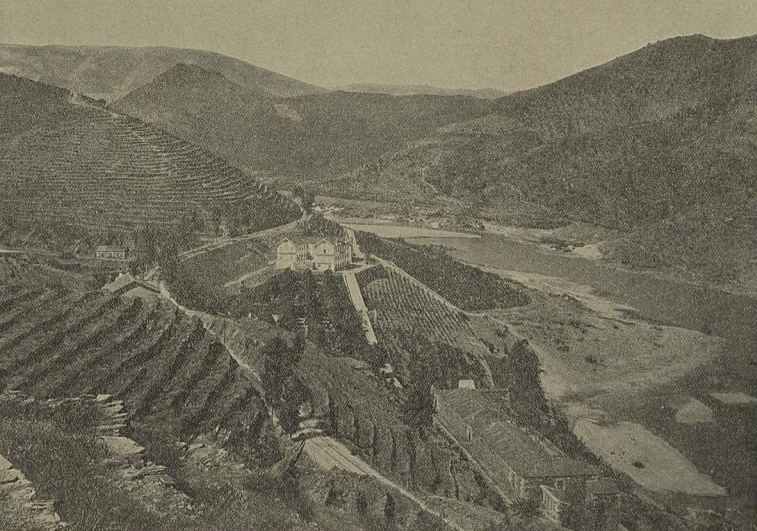 Drawing of the Vesúvio Farm, in the Guarda District, Portugal. On the left is the Vesúvio halt, on the Douro Railway.